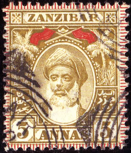 5 annas Zanzibar issue 1899, used Yv62 Mi60 SG197 bistre